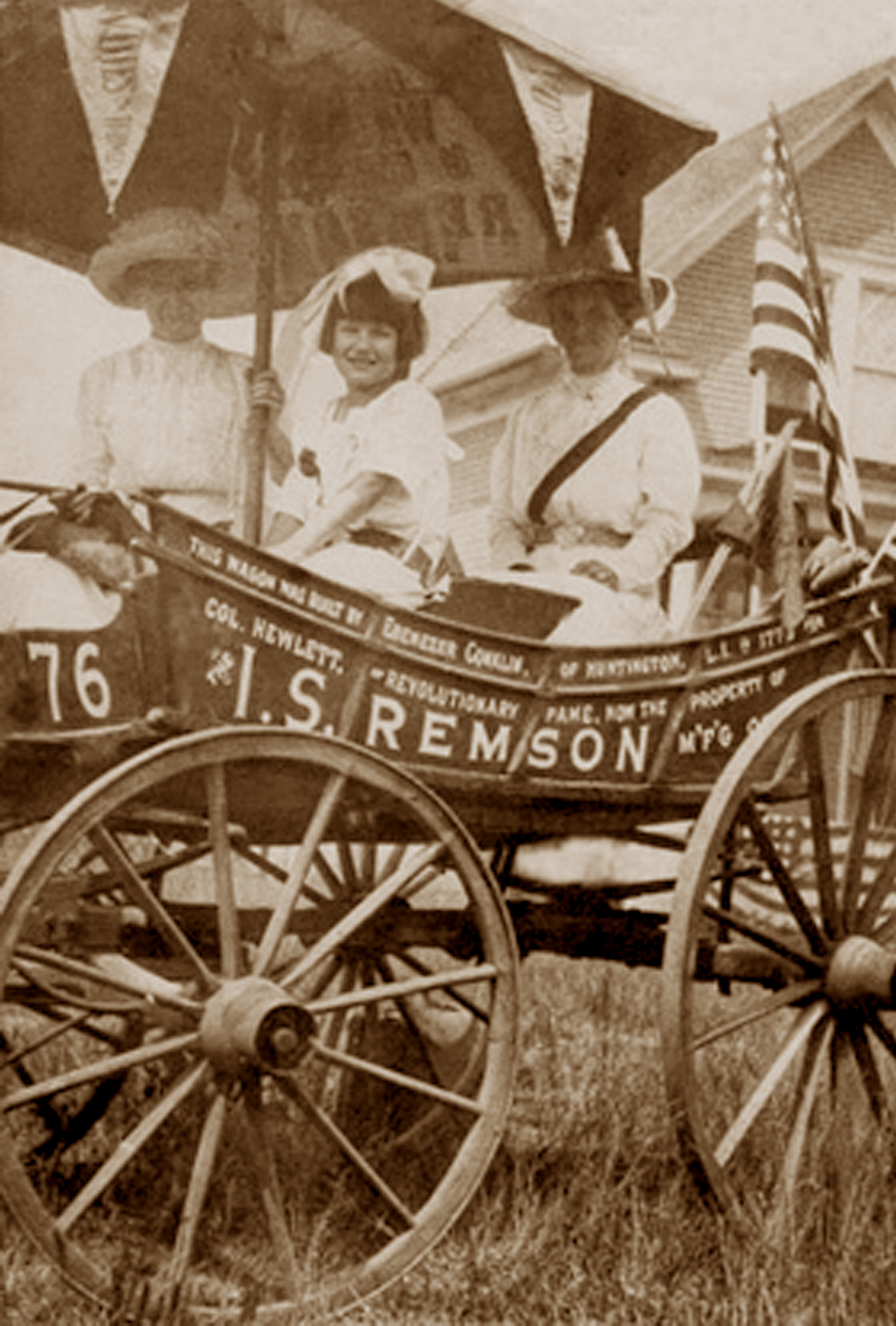 This is a picture of Edna Kearns (left), Serena Kearns (center), and Irene Davison (right)a wagon on the way from Manhattan to Long Island.